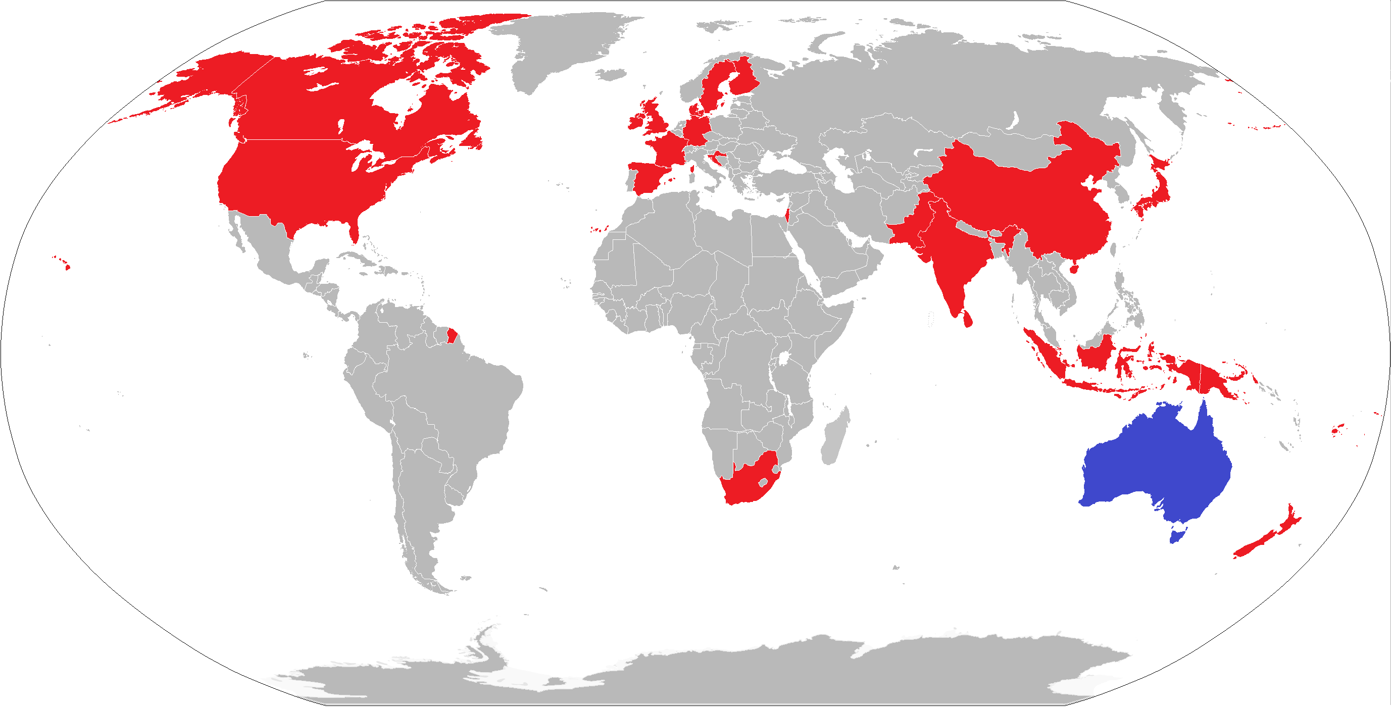 World map showing countries that have participated in the Australian Football International Cup.